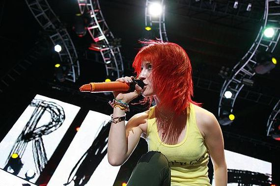 Hayley Williams of Paramore performing live on the Honda Civic Tour.